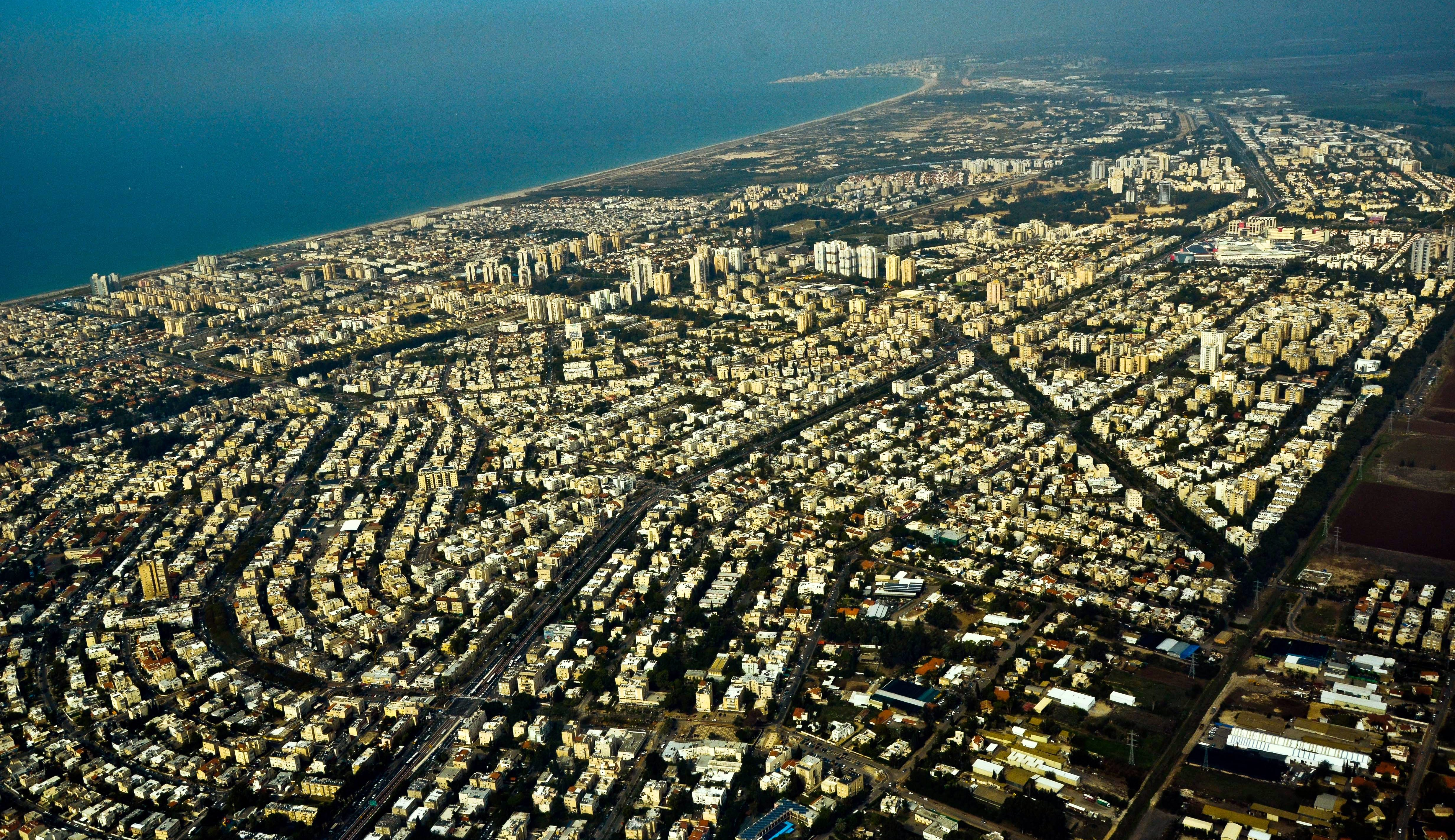 Shot from plane flown by Ilan maytal